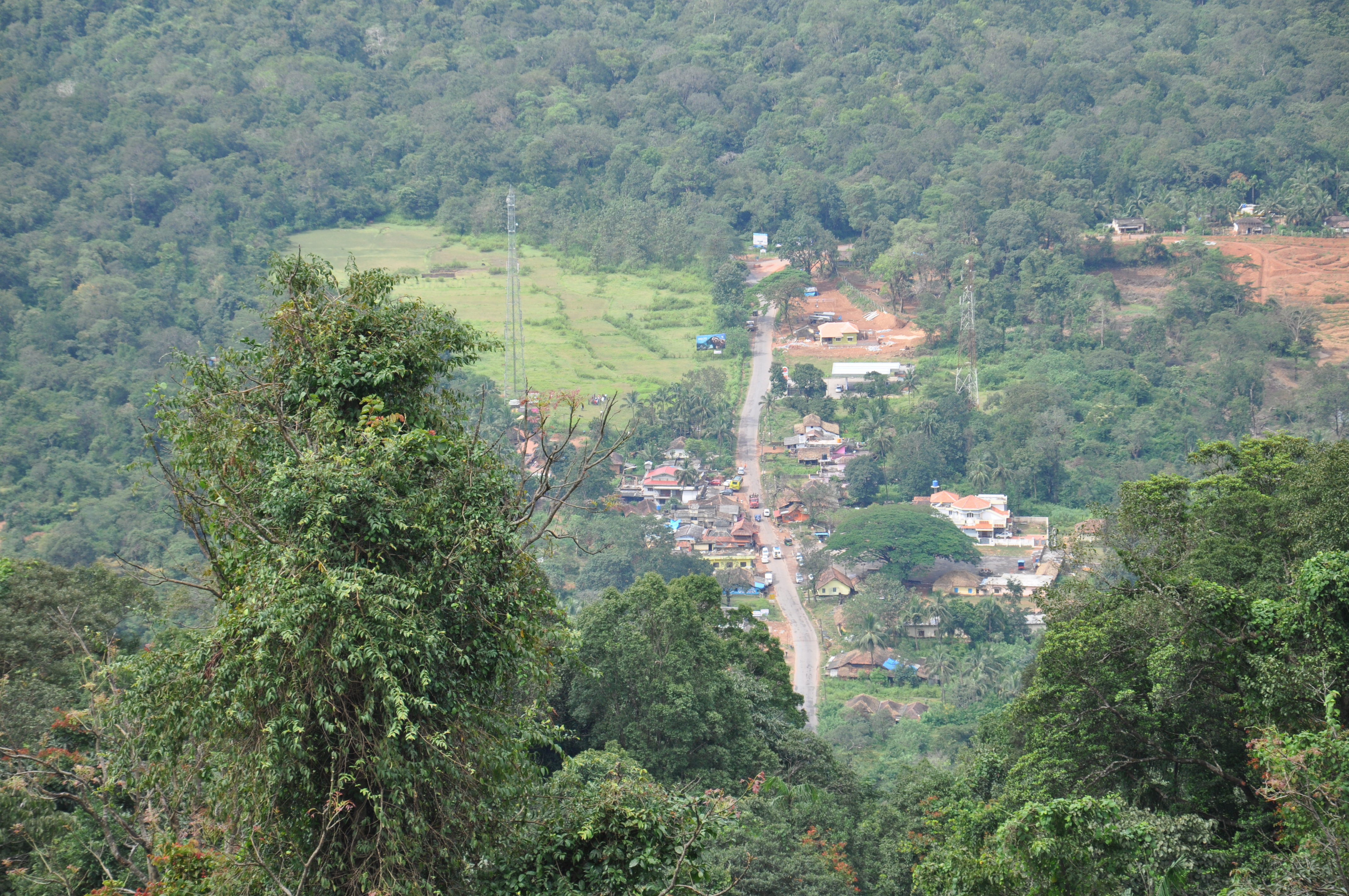 View of Someshwara